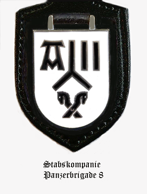 Internal coat of arms Stabskompanie Panzerbrigade 8 (StKp PzBrig 8) of the Bundeswehr (Armed Forces of the Federal Republic of Germany). → Remarks on naming and categorization scheme